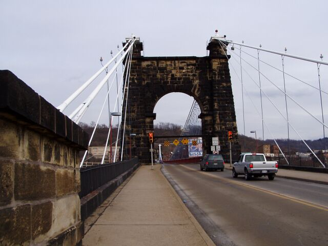 Wheeling Suspension Bridge (Wheeling Island approach)